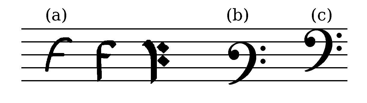 F-Clef